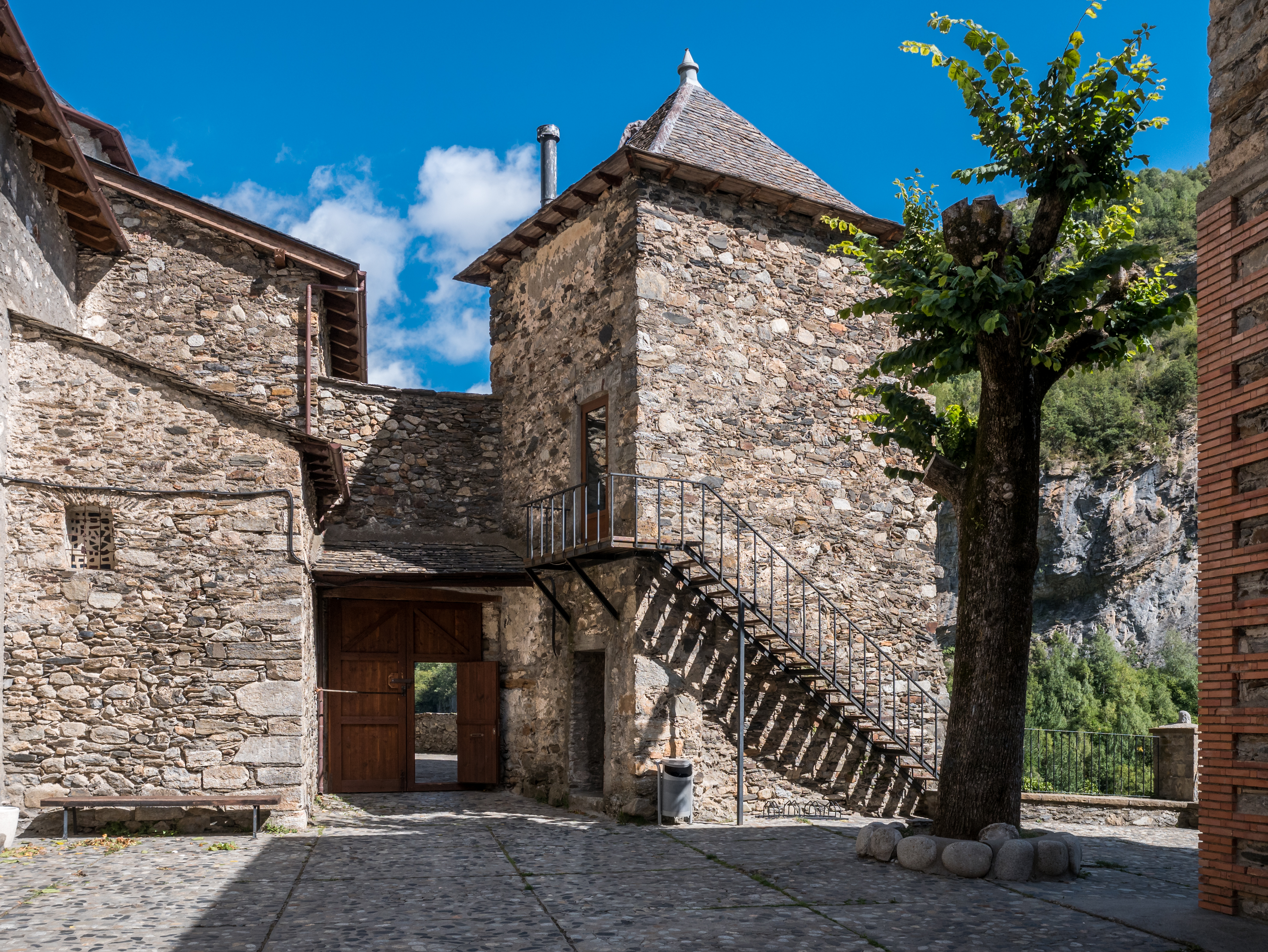 Guayente Sanctuary in Sahún. Huesca, Aragon, Spain